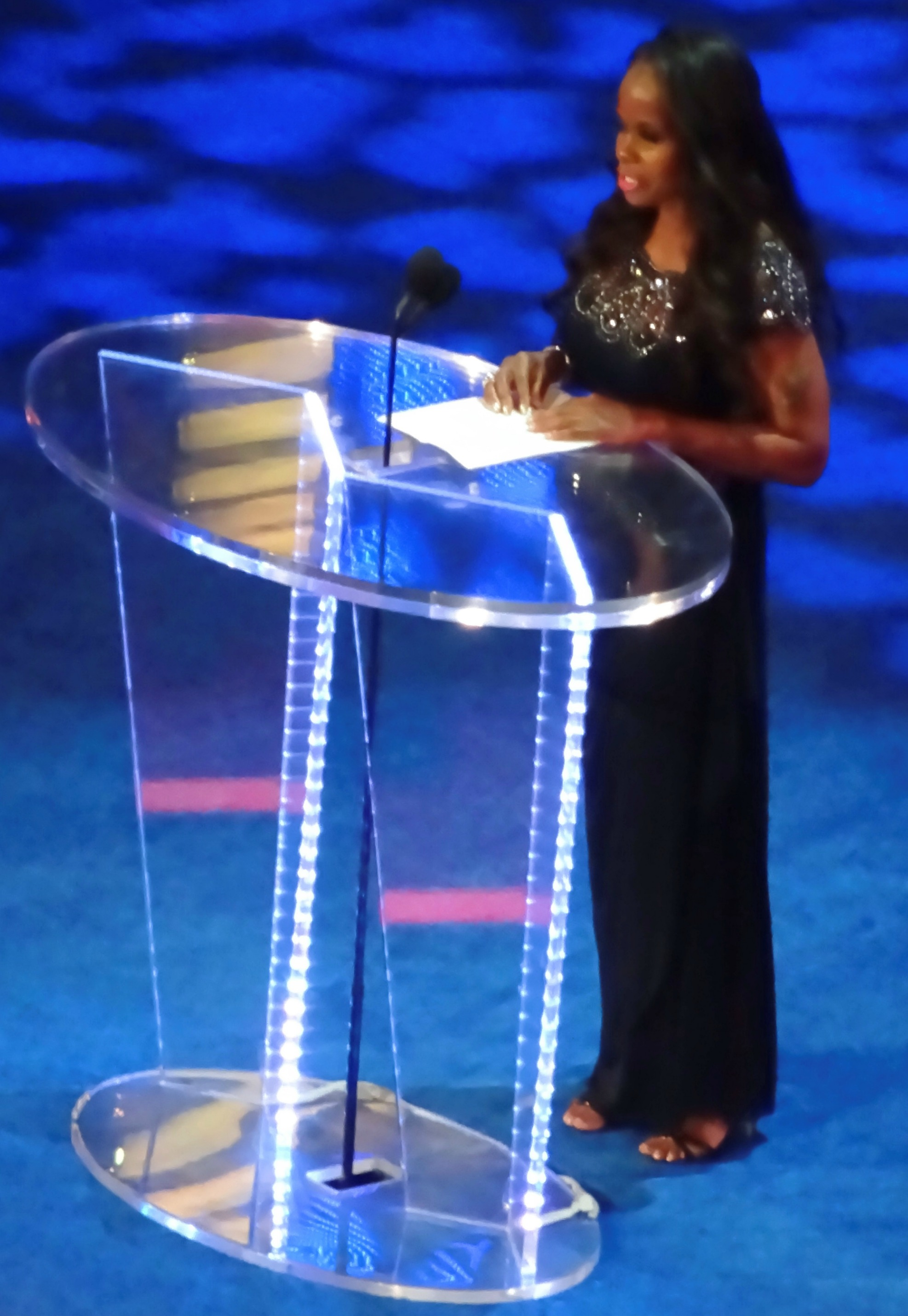 Former WWE superstar Jacqueline Moore performing her speech during her 2016 Hall of Fame induction in April 2, 2016.